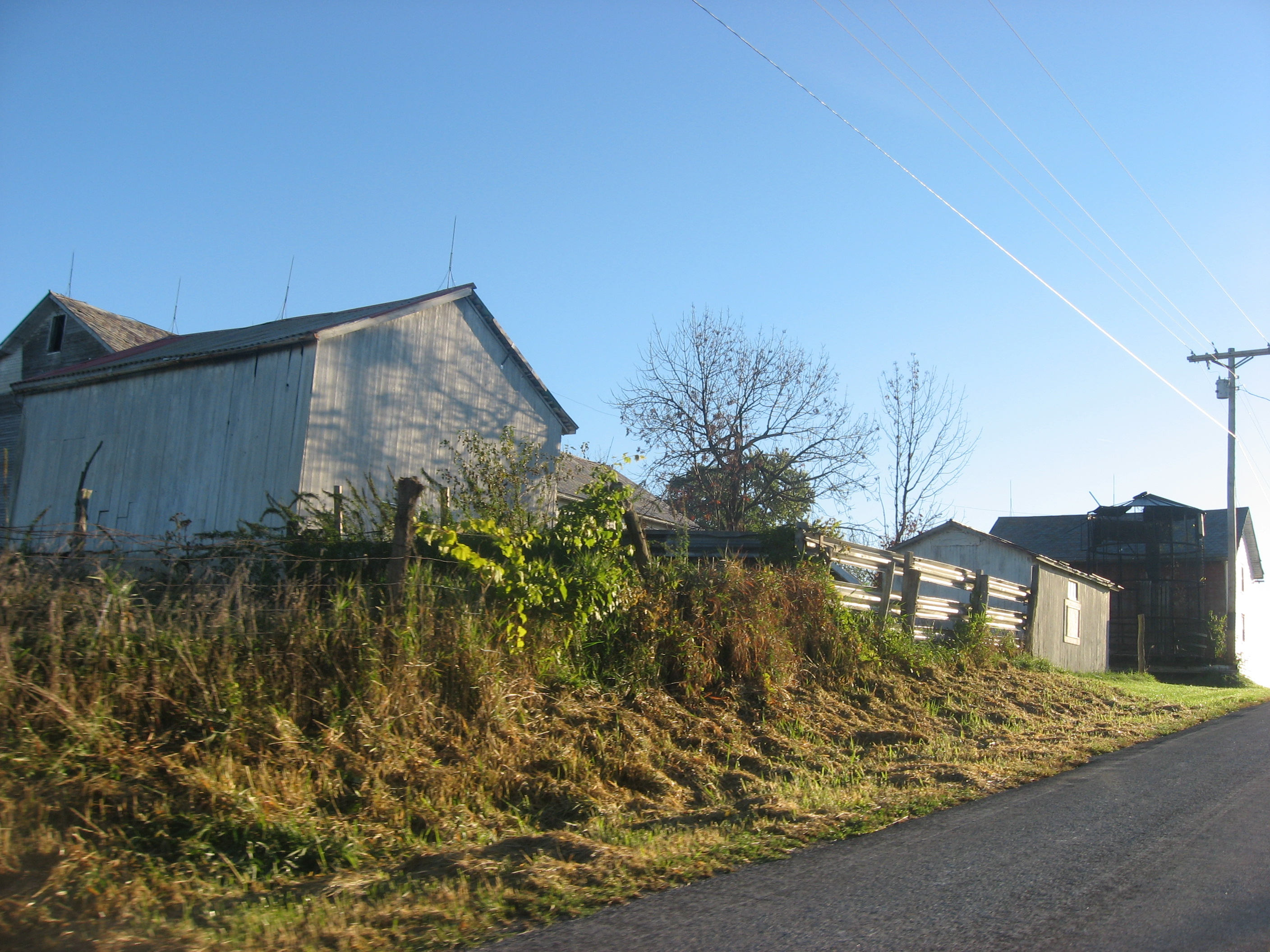 Barns at the John Crumrine Farm, located at 792 County Road 40 north of Nova in Troy Township, Ashland County, Ohio, United States. The complex is listed on the National Register of Historic Places.